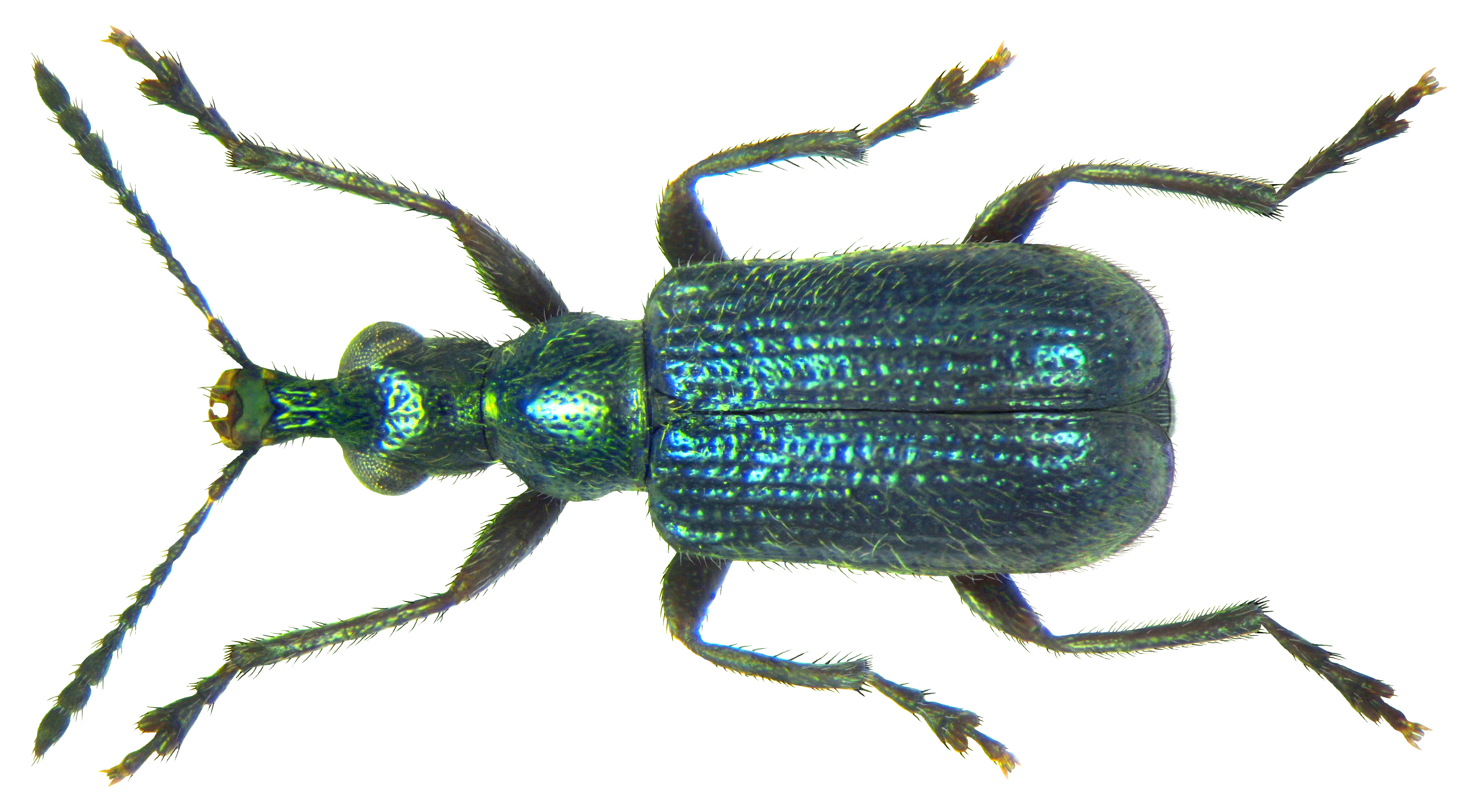 Family: Rhynchitidae Size: 3,6 mm (2,8-4 mm) Origin: East Asia through Siberia and most of Europe Oekologie: on Betula, rare on Salix and Corylus Location: England, Hampshire, New Forest leg.det. P.Harwood, 22.VI.1932 Coll.Museum Oxford Photo: U.Schmidt, 2012